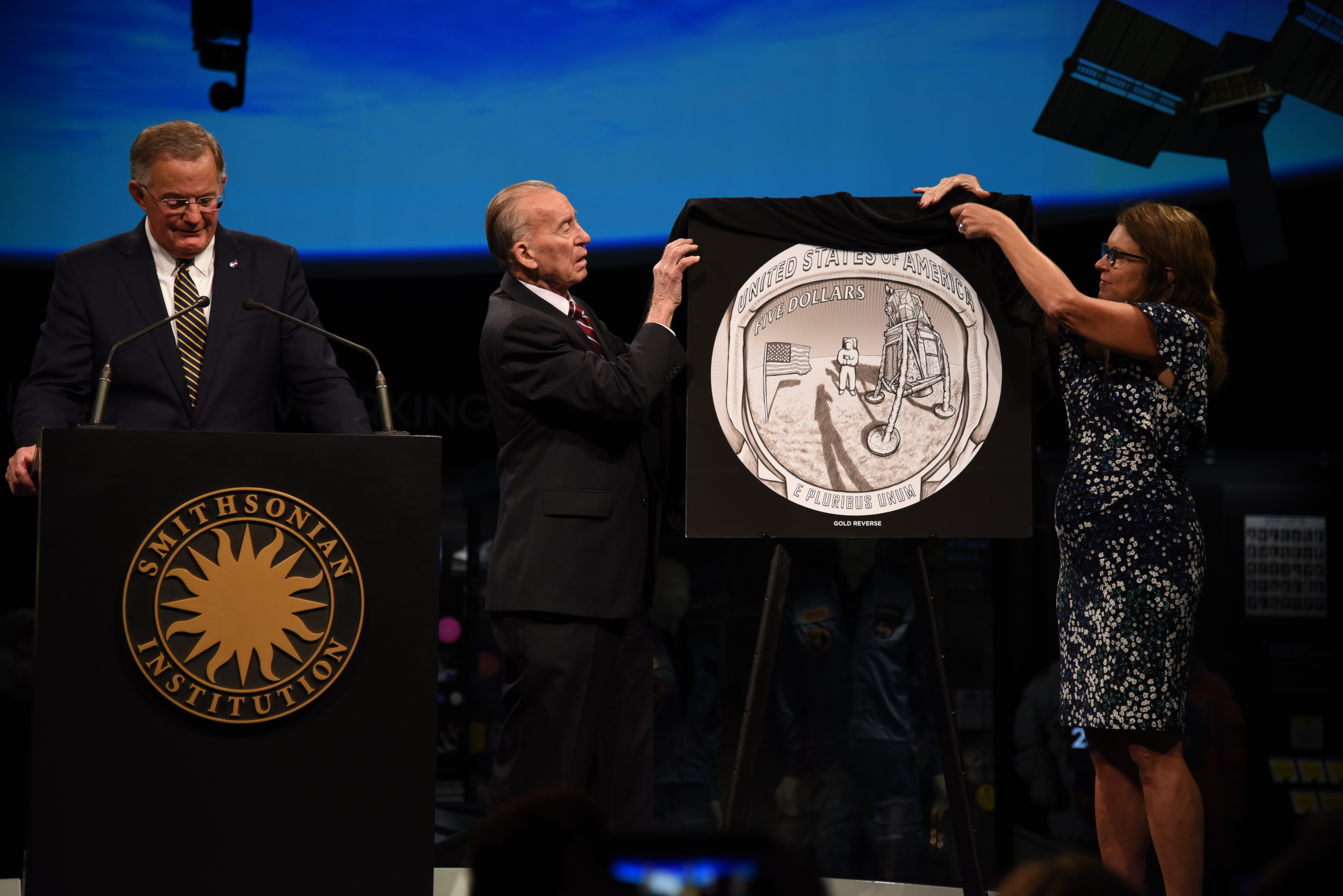 DSC_0351 Apollo 7 astronaut Walter Cunningham and Sheryl Chaffee, daughter of Apollo 1 astronaut Roger Chaffee, assist in the unveiling of the Apollo 11 50th Anniversary Commemorative Coin reverse design at the Smithsonian’s National Air and Space Museum on Oct. 11, 2018. The coins will be released in January 2019. U.S. Mint photo by Sharon McPike.